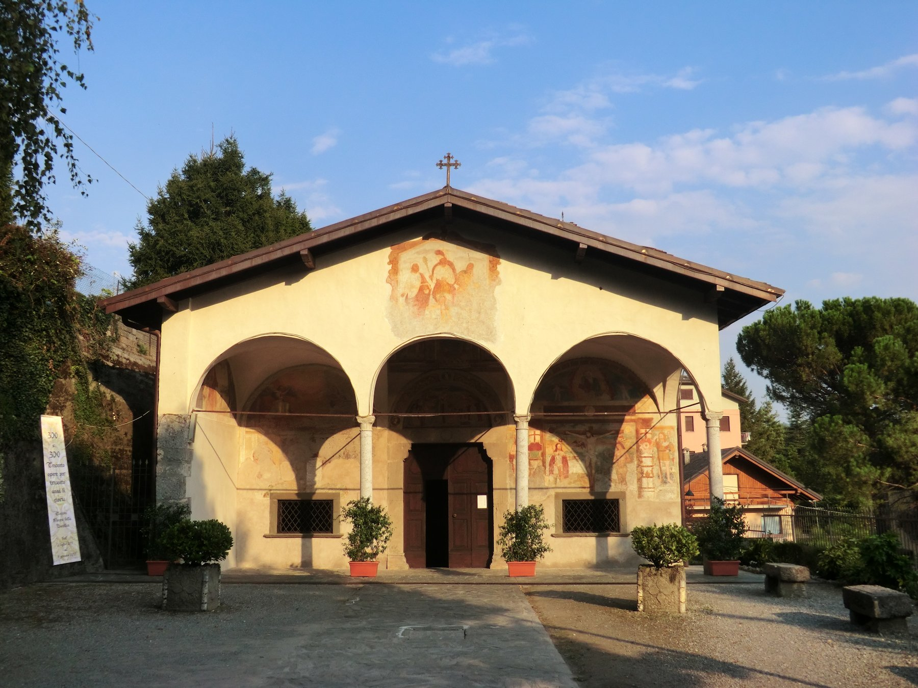 San Defendente (Clusone) Native nameSan Defendente (Clusone)LocationClusone, Lombardy, ItalyCoordinates45° 53′ 26.76″ N, 9° 57′ 16.39″ E